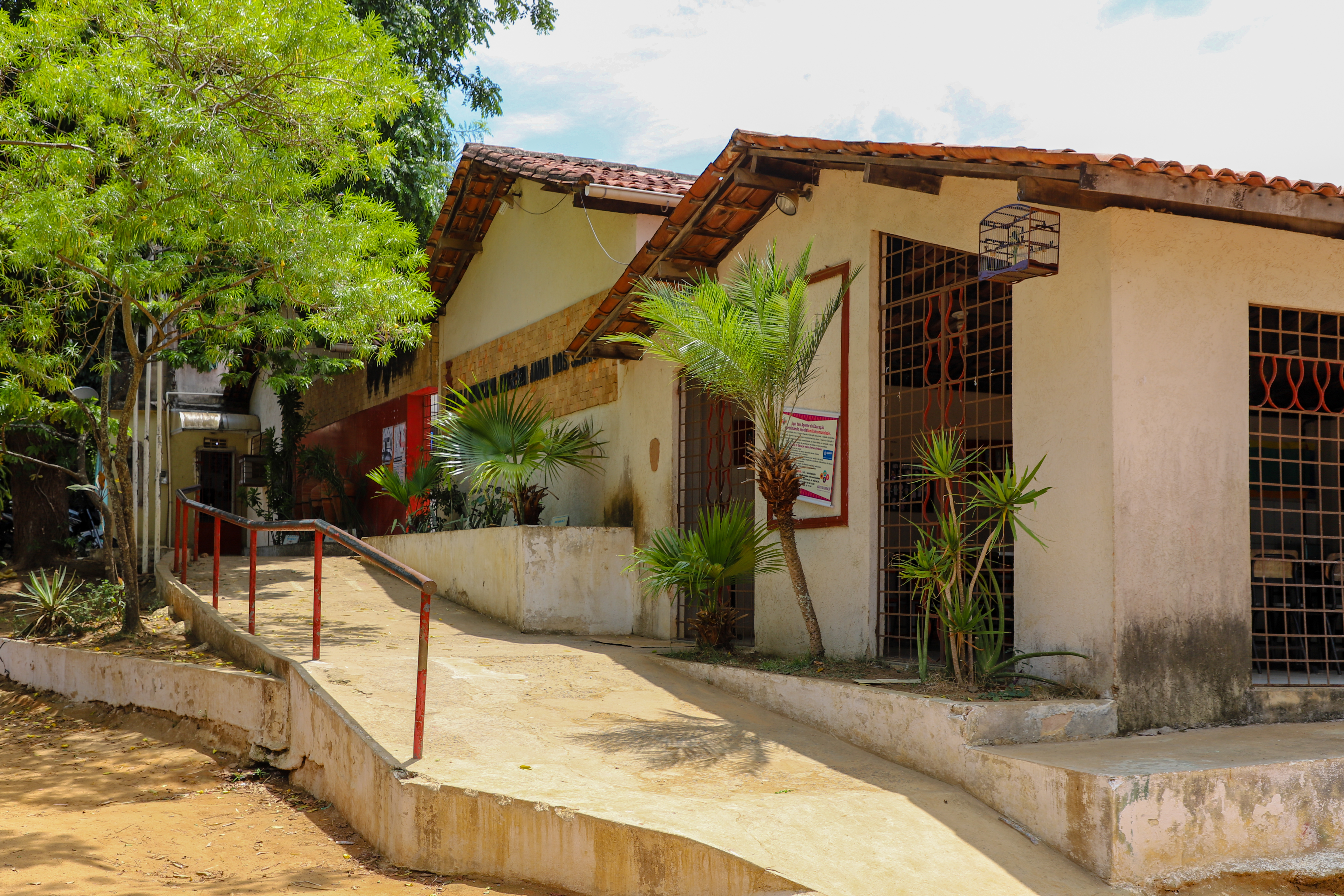 Ilê Axé Opô Afonjá, Salvador, Bahia, Brazil.